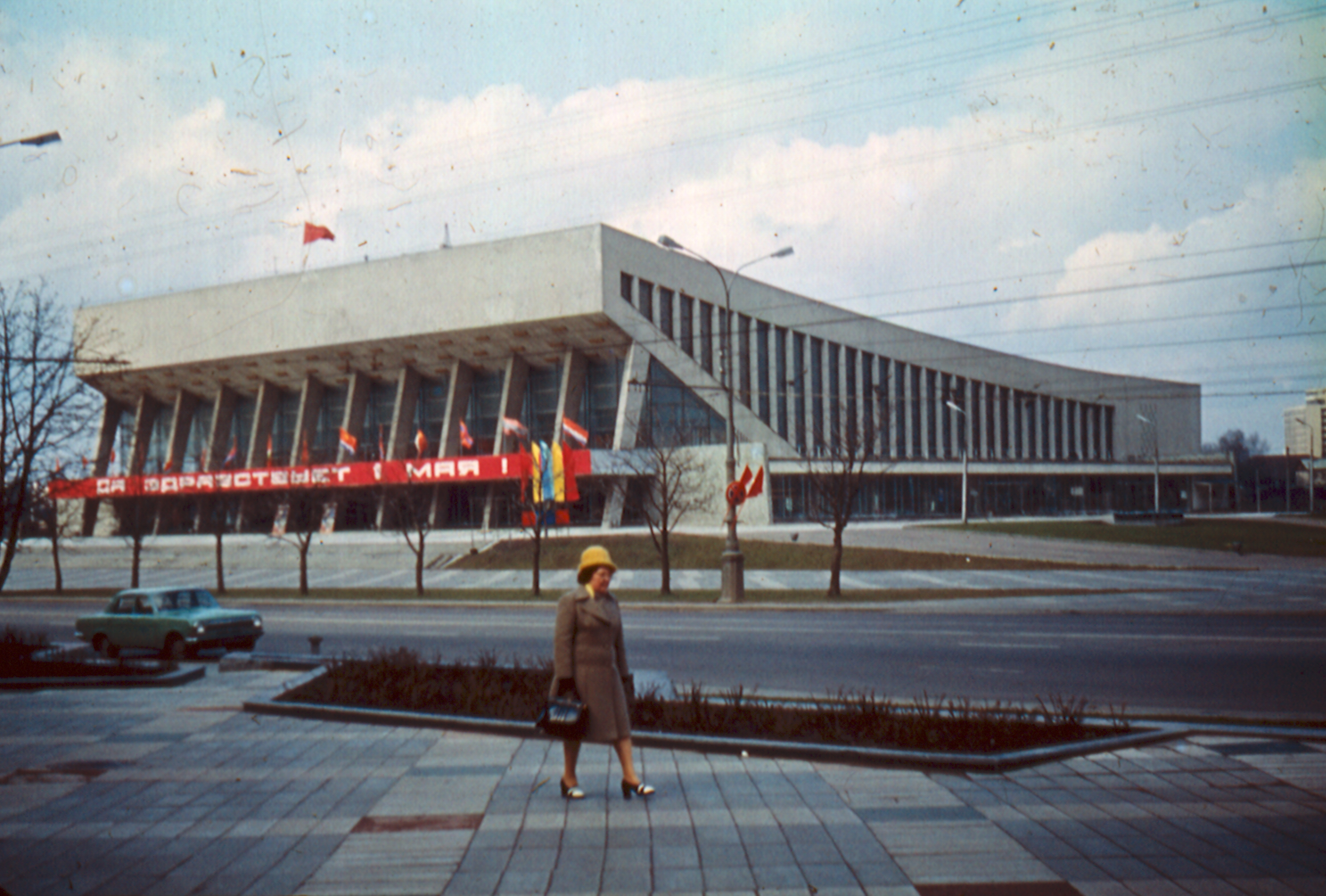 Palace of sport in Minsk, Belorussian SSR, 1981.